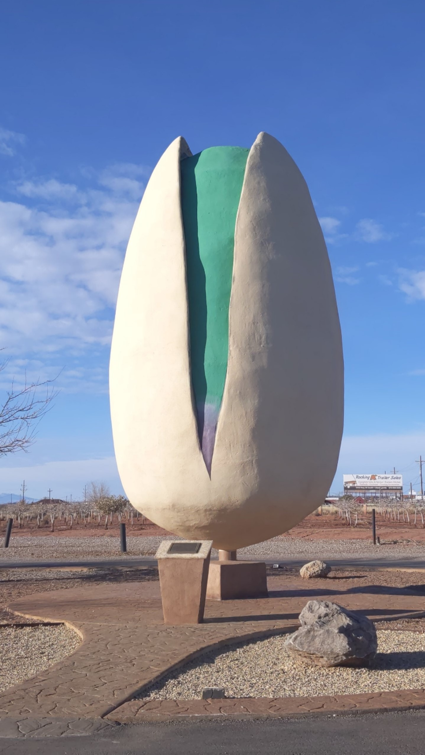 World's Largest Pistachio found at McGinn's Pistachio Tree Ranch in Alamogordo, NM. It is dedicated to Tom McGinn, the founder of the farm.